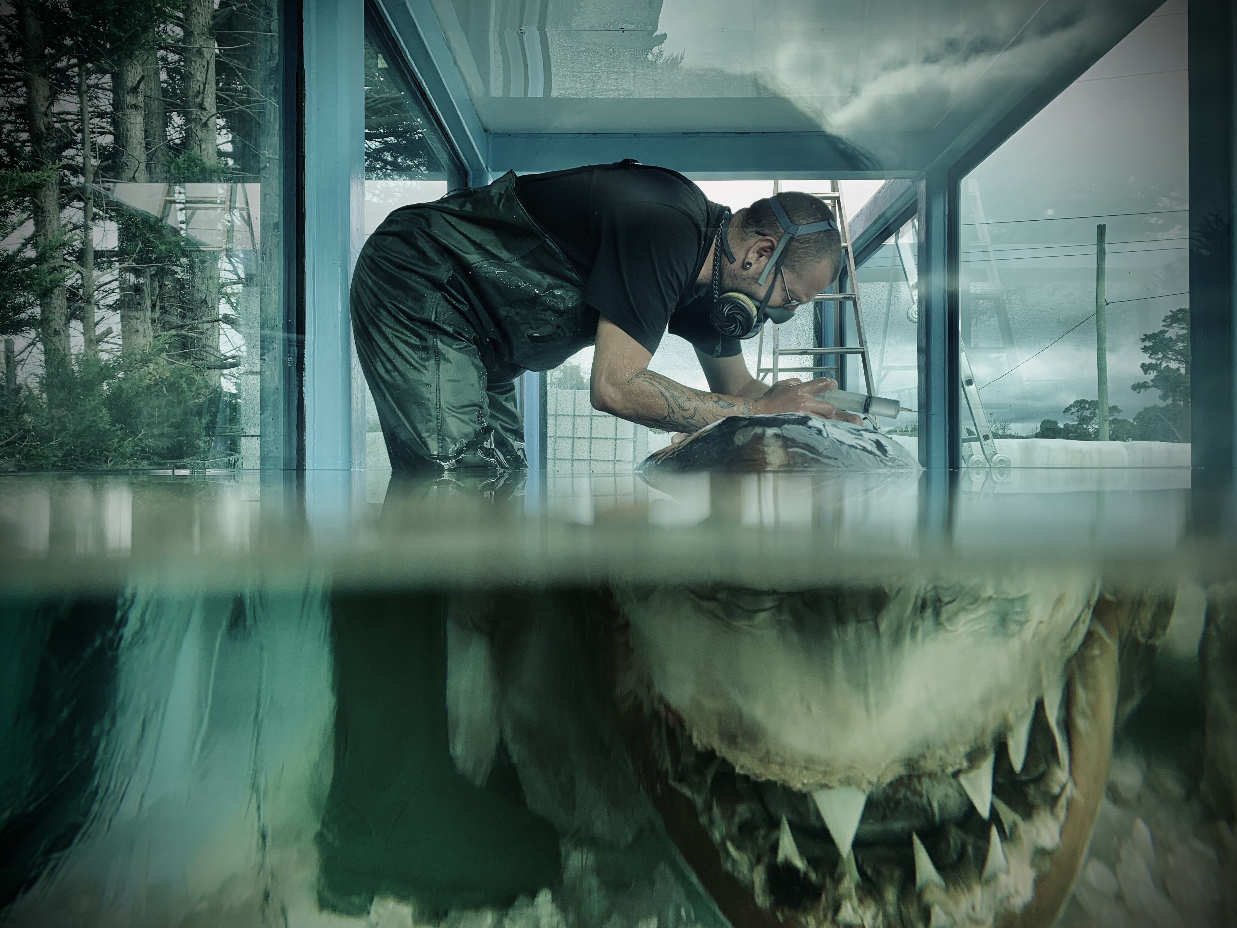 Shane McAlister injecting Glycerol preservative into Rosie the Shark at Crystal World Exhibition Centre, replacing the previously carcinogenic preservative formaldehyde.